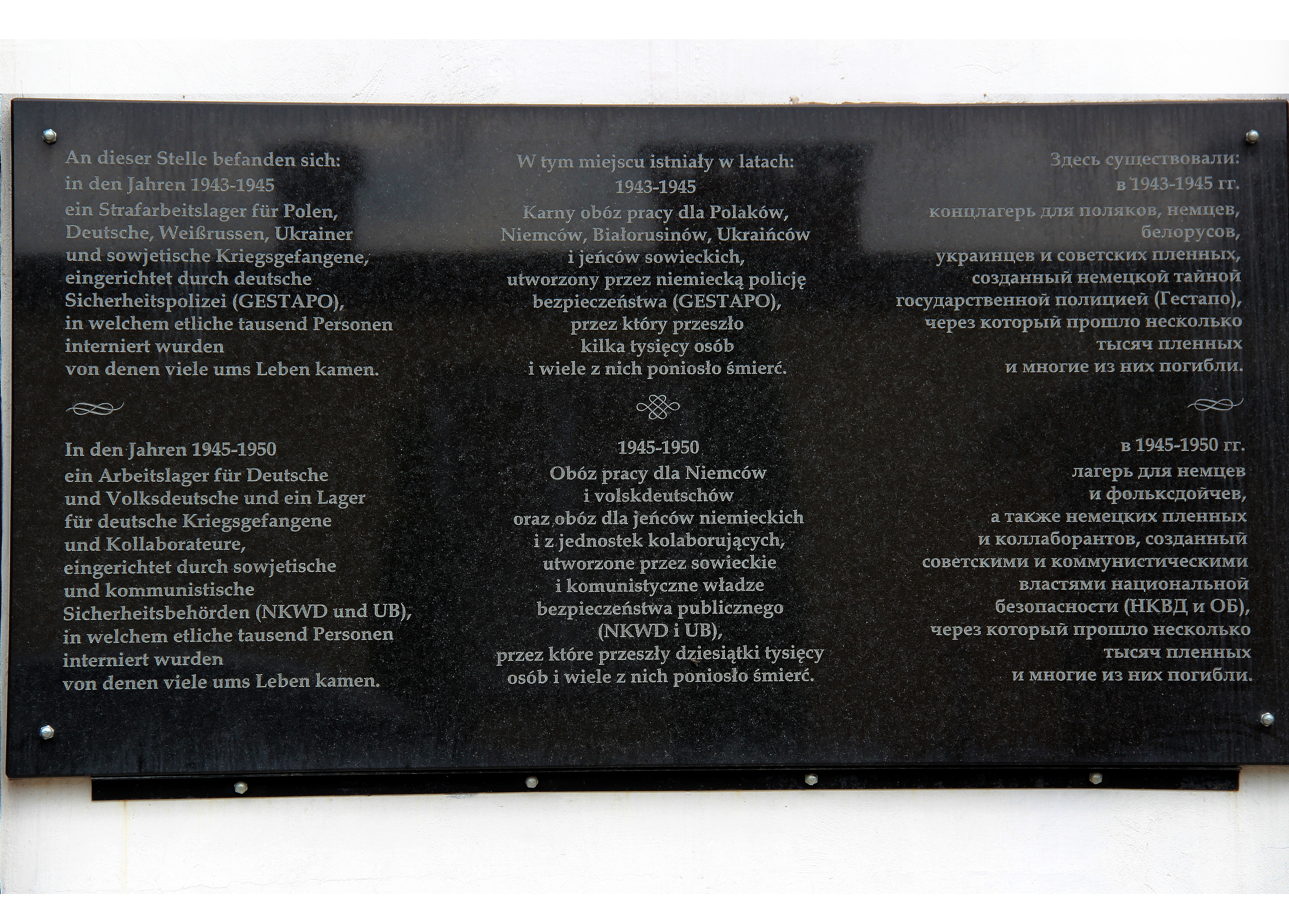 This historical plaque is located on the wall outside the modern Sikawa prison. It informs about the Sikawa labour camp in German, Polish and Russian.